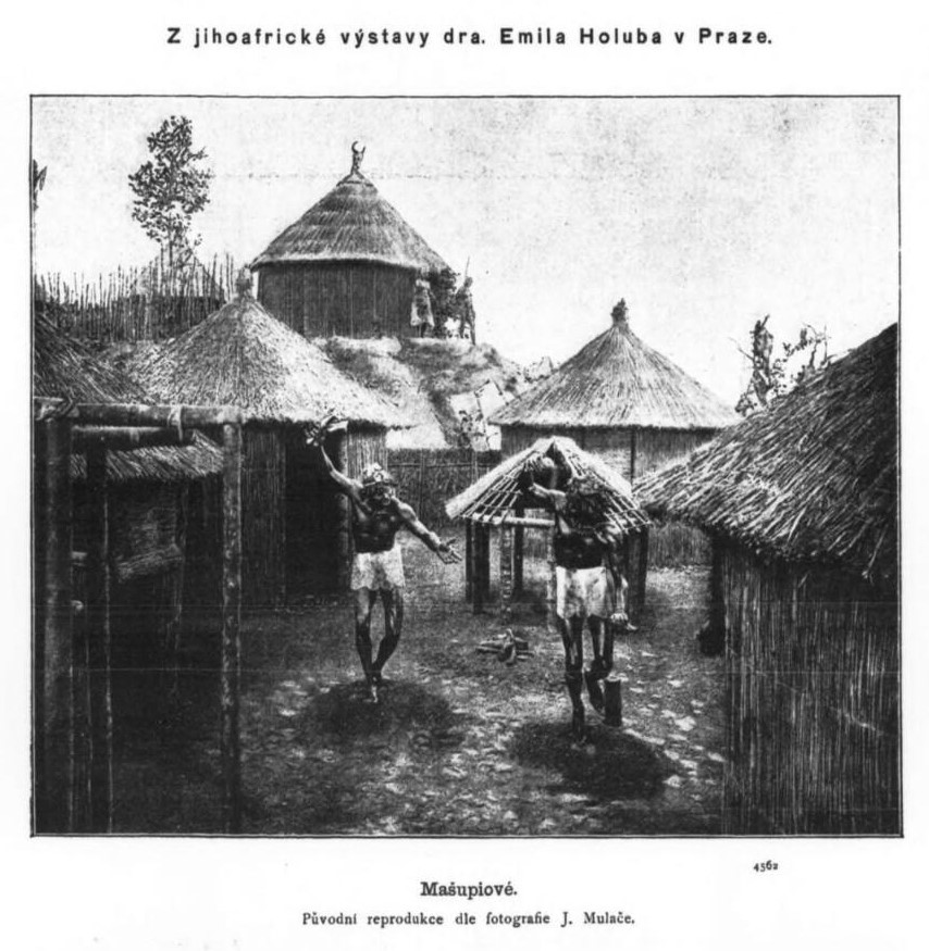 Emil Holub exposition Prague 1892 (2)